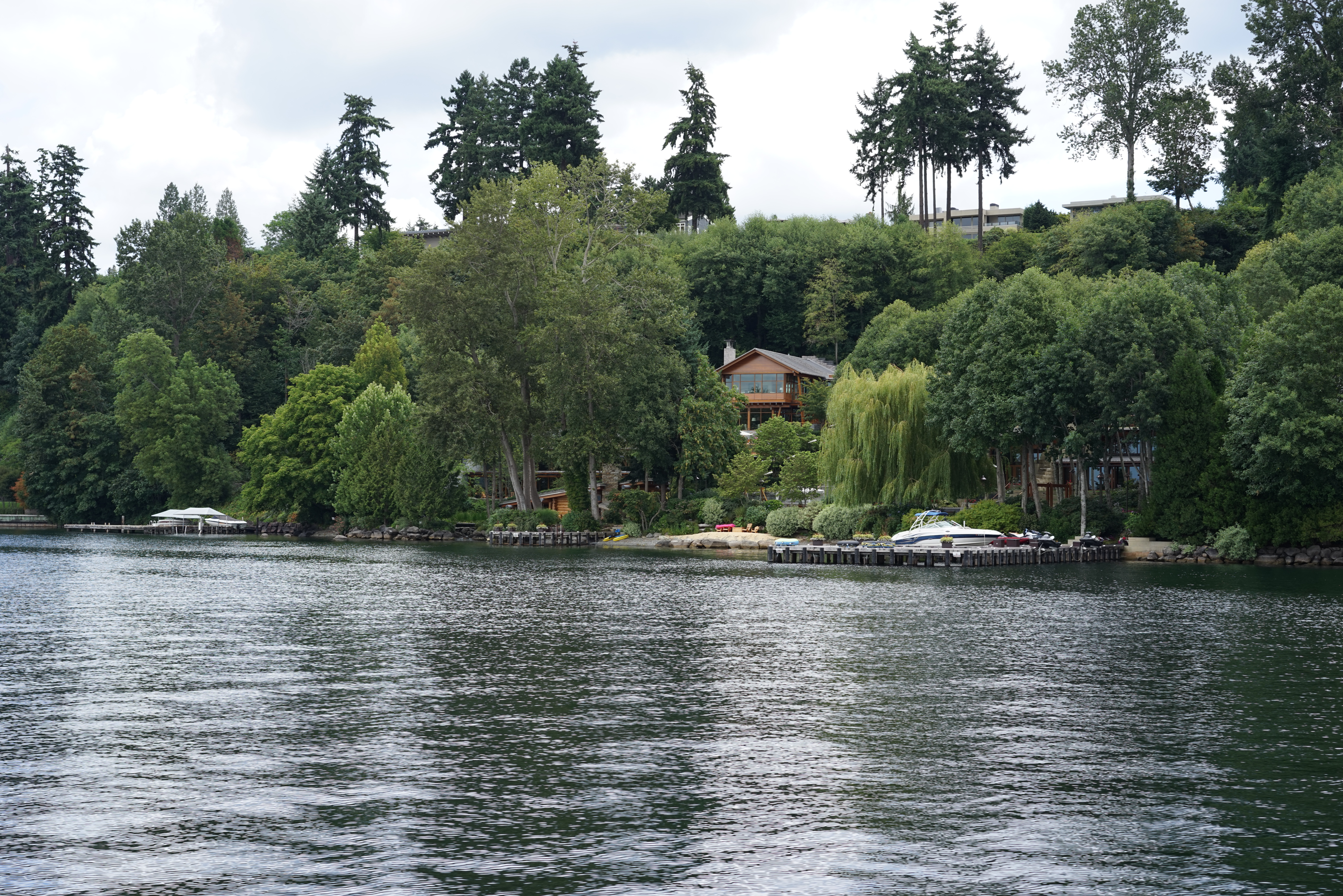 Bill Gates' House as seen in summer 2015 from Lake Washington.